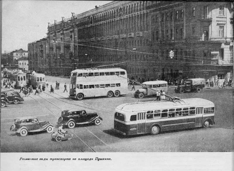 Old russian doubledecker YATB-3 in moscow in the late thirties early forties